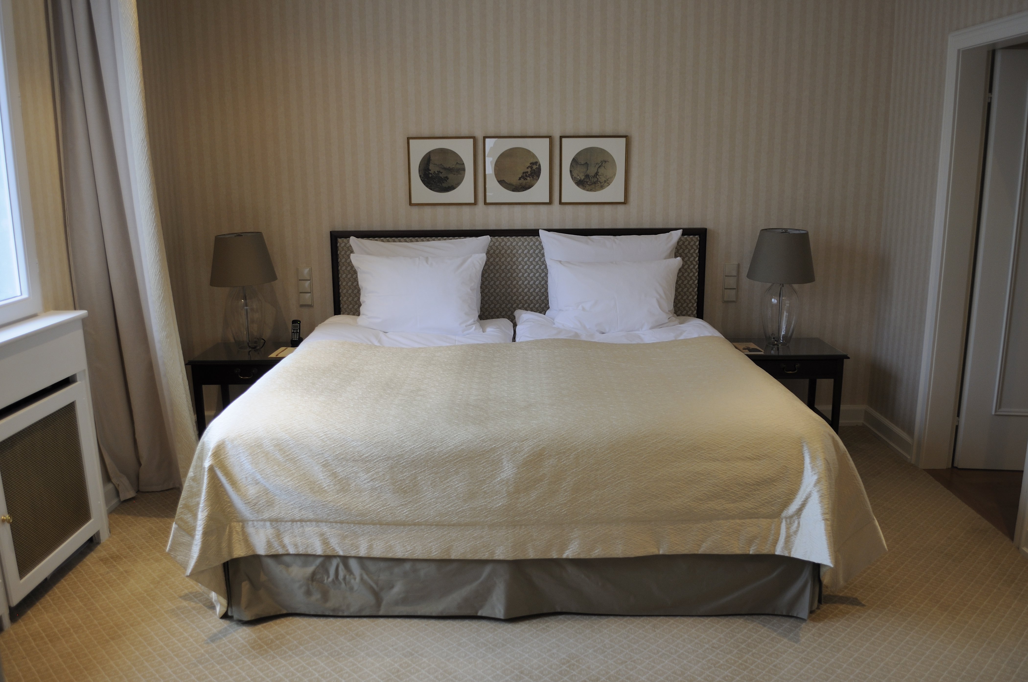 Hotel Nassauer Hof, Wiesbaden (Germany).